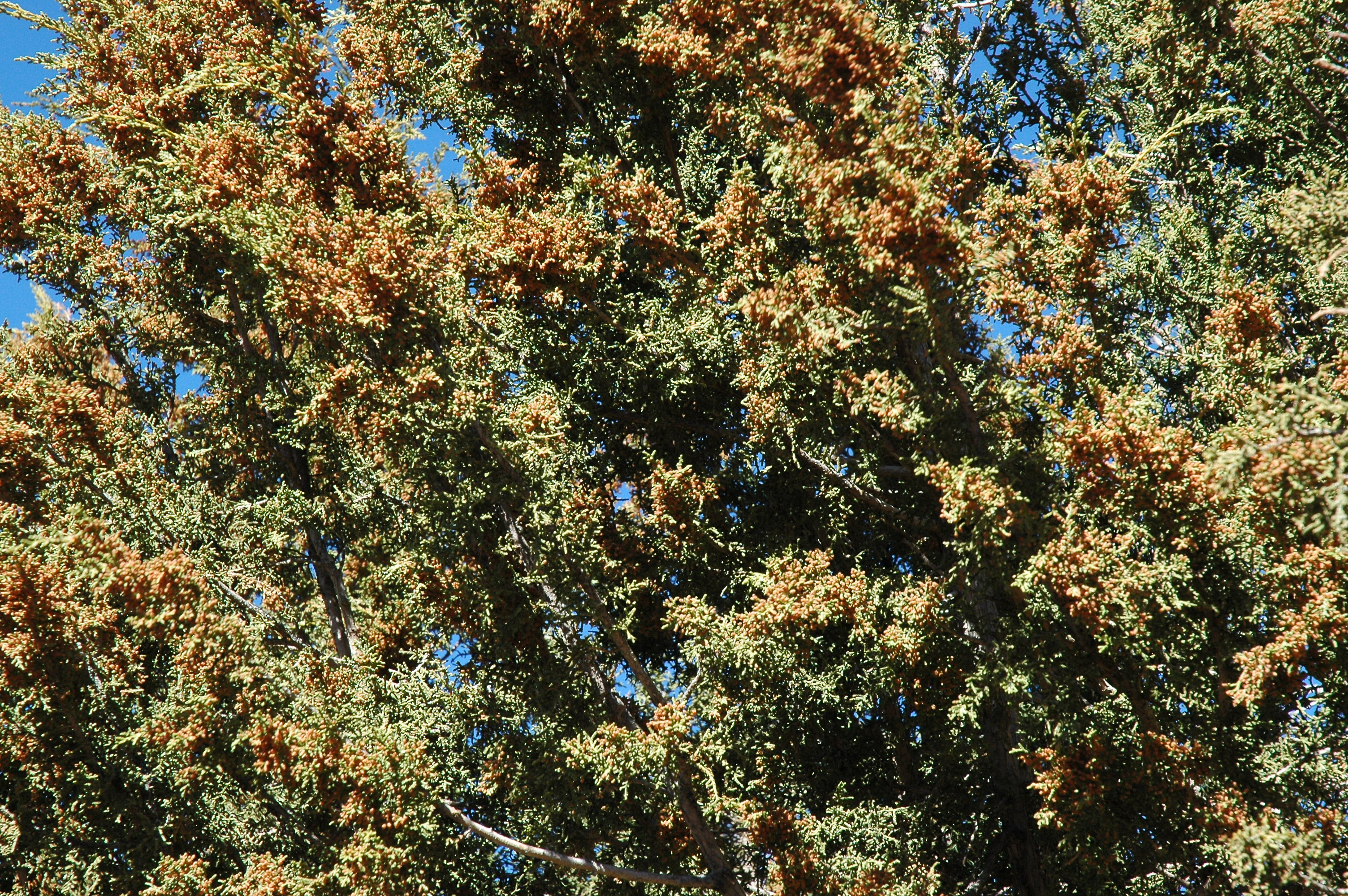 Juniperus scopulorum with pollen cones. Santa Fe, Mew Mexico.